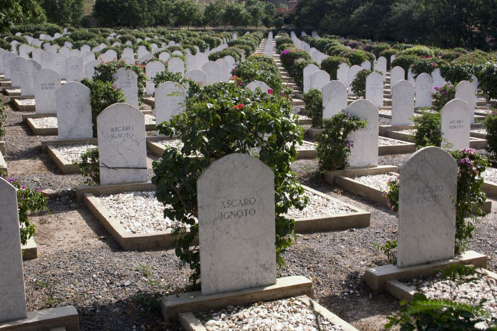 Battle of Keren Battlefield - Military Cemetery